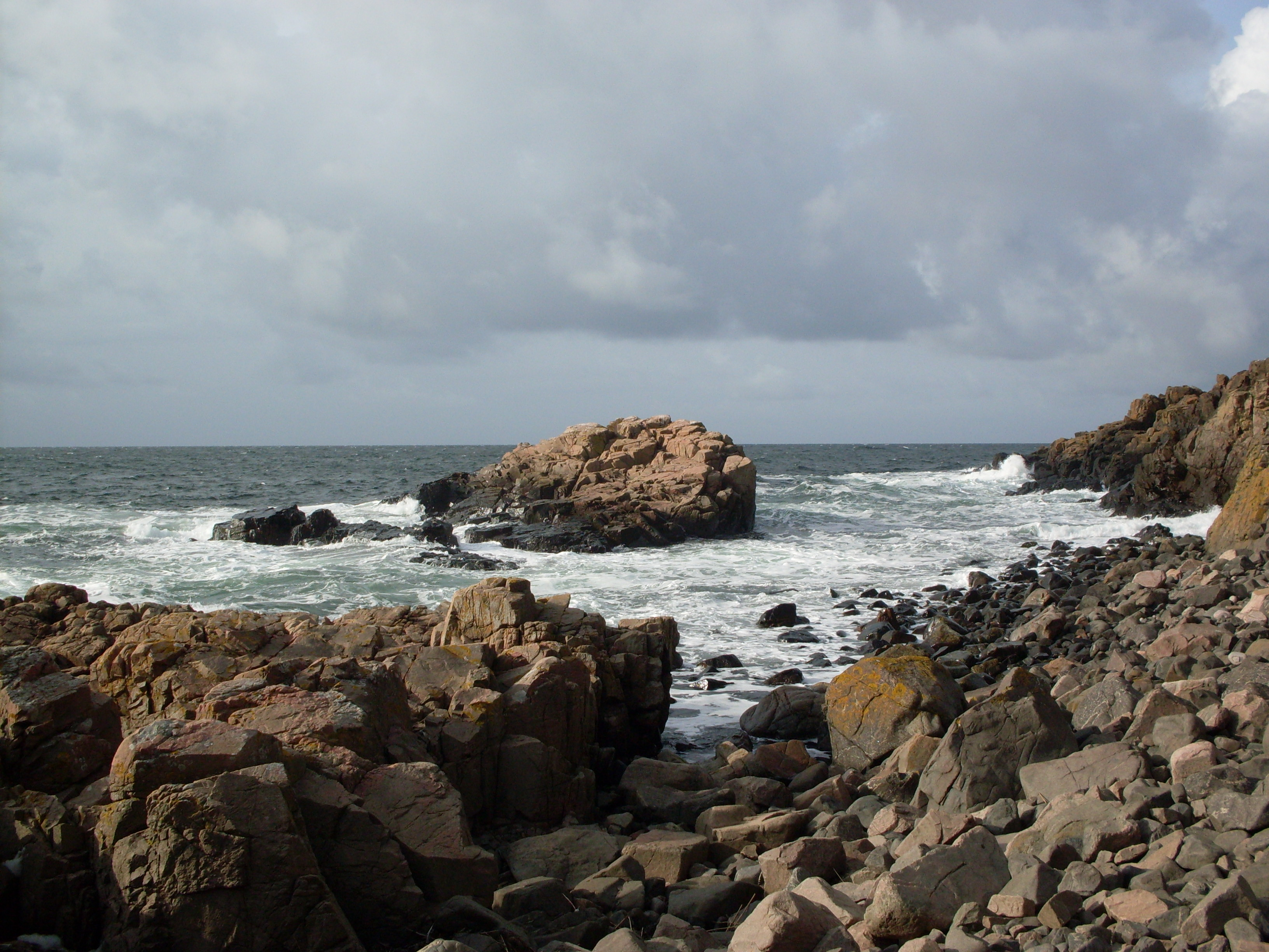 Coast at Kullen, southern Sweden